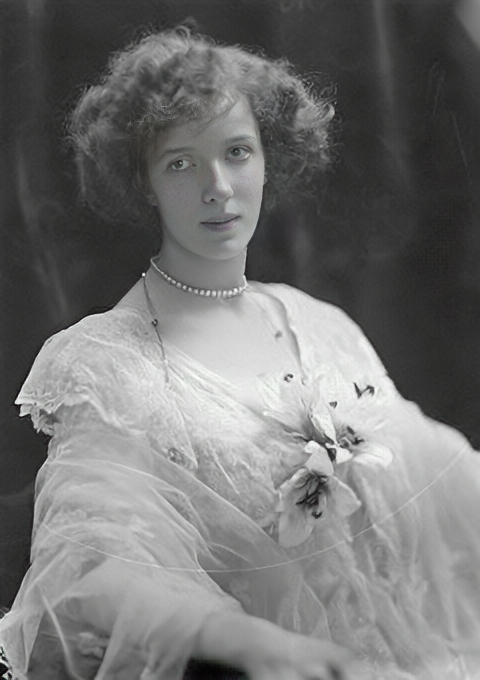 Lilian Paget, Marchioness of Anglesey